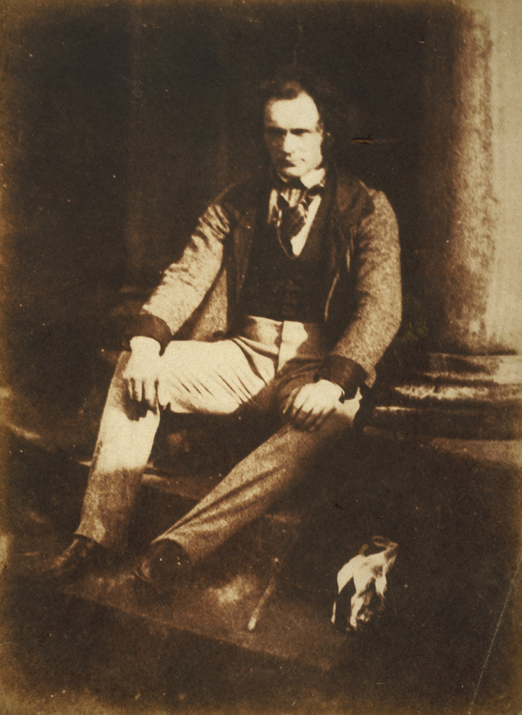 Thomas Duncan, 1807 - 1845. Artist in the Collection of the National Galleries of Scotland Accession no. PGP HA 795 Medium Calotype print Size 19.60 x 14.50 cm Credit Bequeathed by James Brownlee Hunter, 1928. This calotype portrait by Hill and Adamson bears a strong resemblance to a portrait of Duncan by Robert Scott Lauder, painted around 1839. The artist Thomas Duncan was educated at Perth Academy, together with lifelong friend David Octavius Hill. In 1827 Duncan enrolled at the Trustees’ Academy in Edinburgh, where he studied under William Allan. The following year he exhibited at the (Royal) Scottish Academy and, due to the success of his work, was elected a full member in 1829. Duncan established a significant portrait studio, but he is better known for his narrative works inspired by Scottish history and the novels of Sir Walter Scott. From 1838 until his untimely death in 1845 Duncan worked as a professor at the Trustees’ Academy.